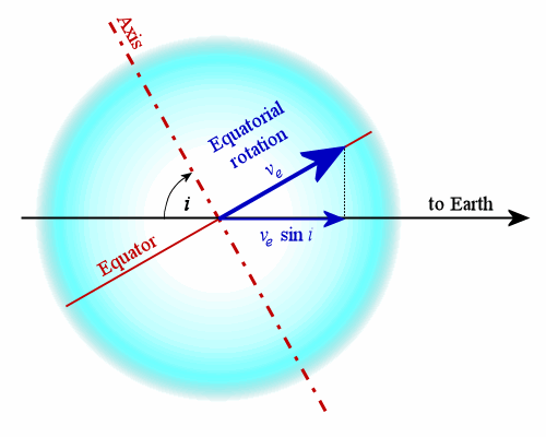 This diagram illustrates a rotating star as viewed from the Earth. The equatorial rotation is ve and the inclination of the polar axis relative to the line of sight from the Earth is given by i. Thus the radial velocity as viewed from Earth is given by ve sin i. (The angle between the equator and the line of sight is π/2 - i, but cos( π/2 - i ) = sin( i ) .) The illustration was made by the contributor using Paint Shop Pro version 8.